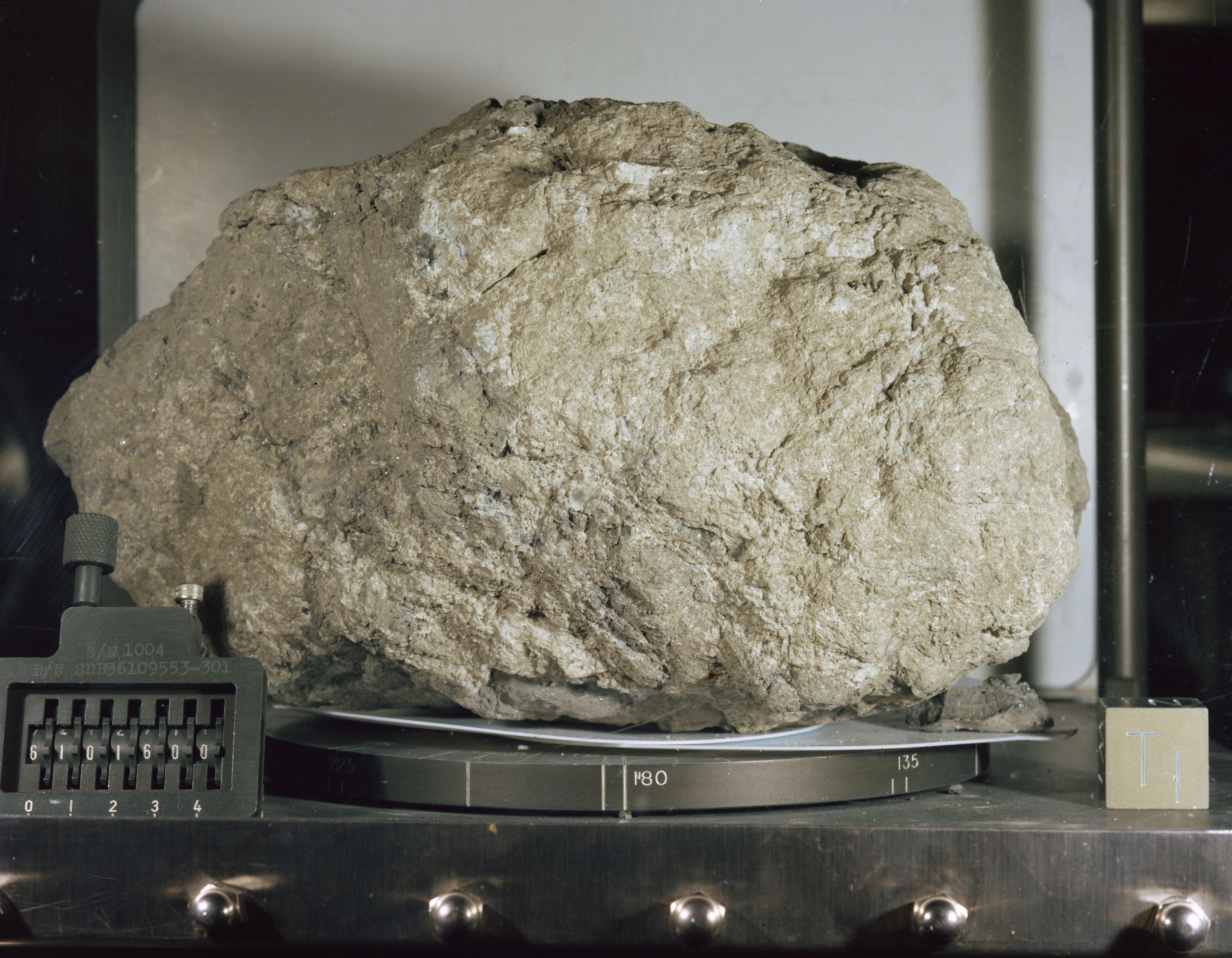 NASA lab photo of Lunar Sample 61016, better known as Big Muley, the largest rock returned from the Moon during the Apollo program. This rock, a breccia, was discovered and collected on Apollo 16.